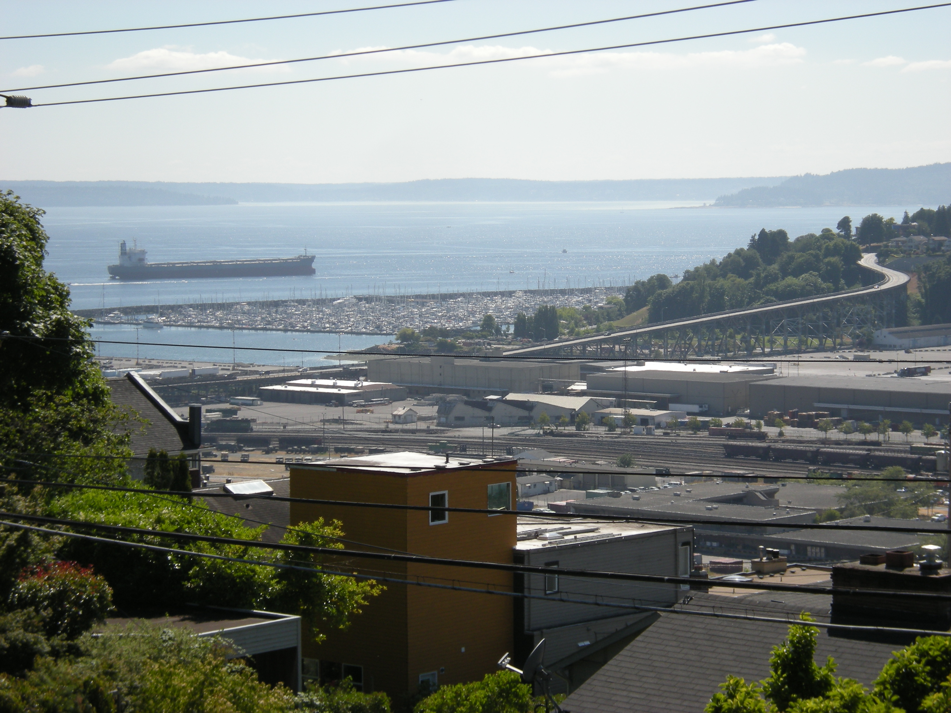 Smith Cove seen from Soundview Terrace on Queen Anne Hill, Seattle, Washington.